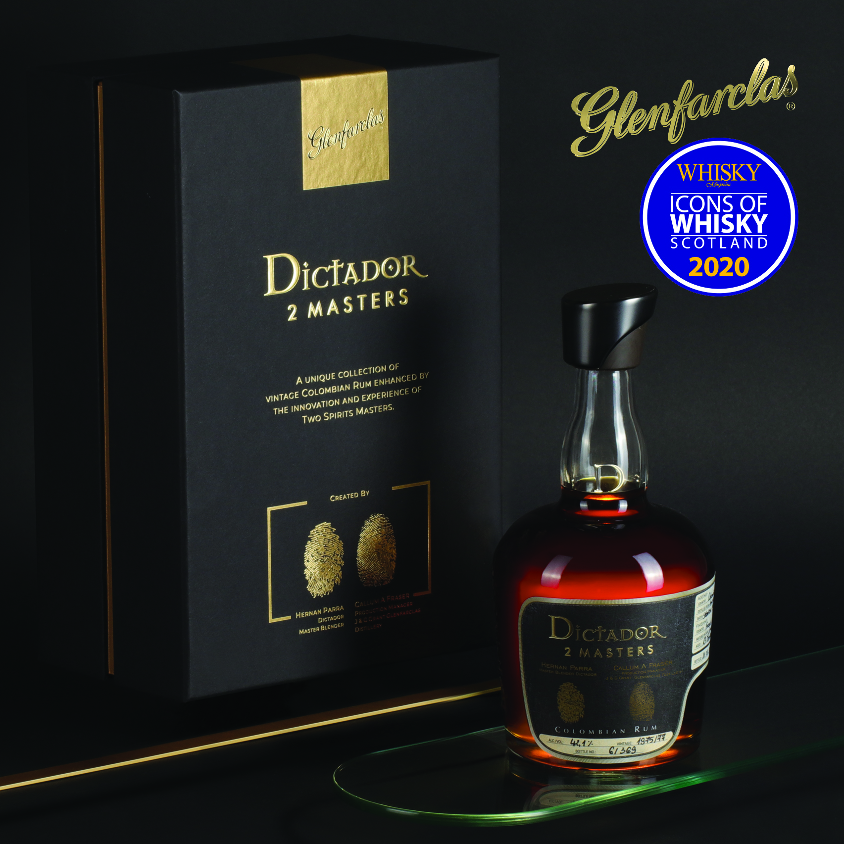 Dictador 2 Masters Glenfarclas. One of the limited editions bottles from Dictador 2 Masters collection. Glenfarclas Distillery is partnering with Dictador rum in the exclusive 2 Masters program, a truly remarkable collection of Dictador decades-old Colombian rum with a finish added by the most skilled artisans in the industry.